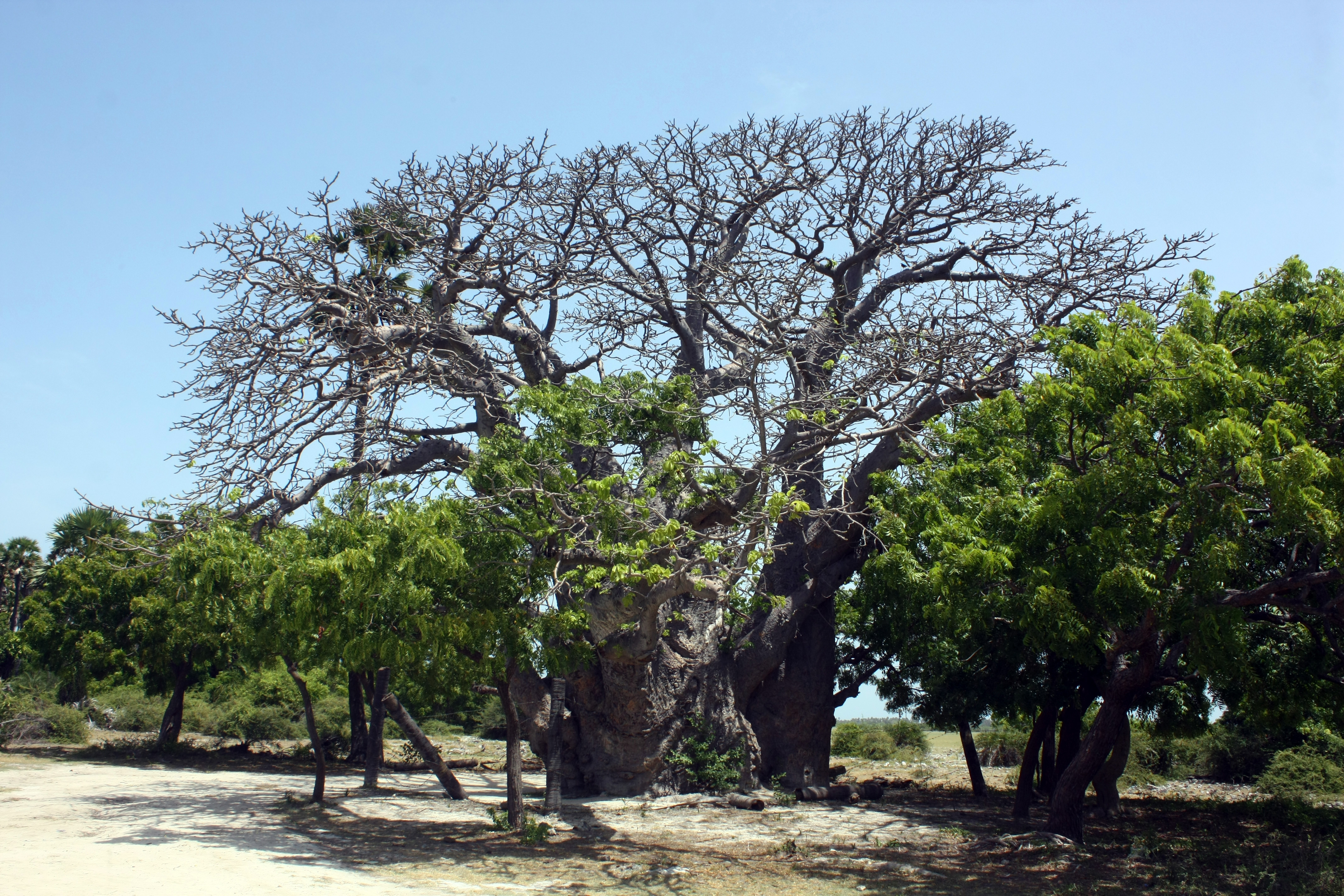 Baobab (Adansonia digitata), native to East Africa. Arabian sailors introduced in Neduntheevu during the seventh century AD